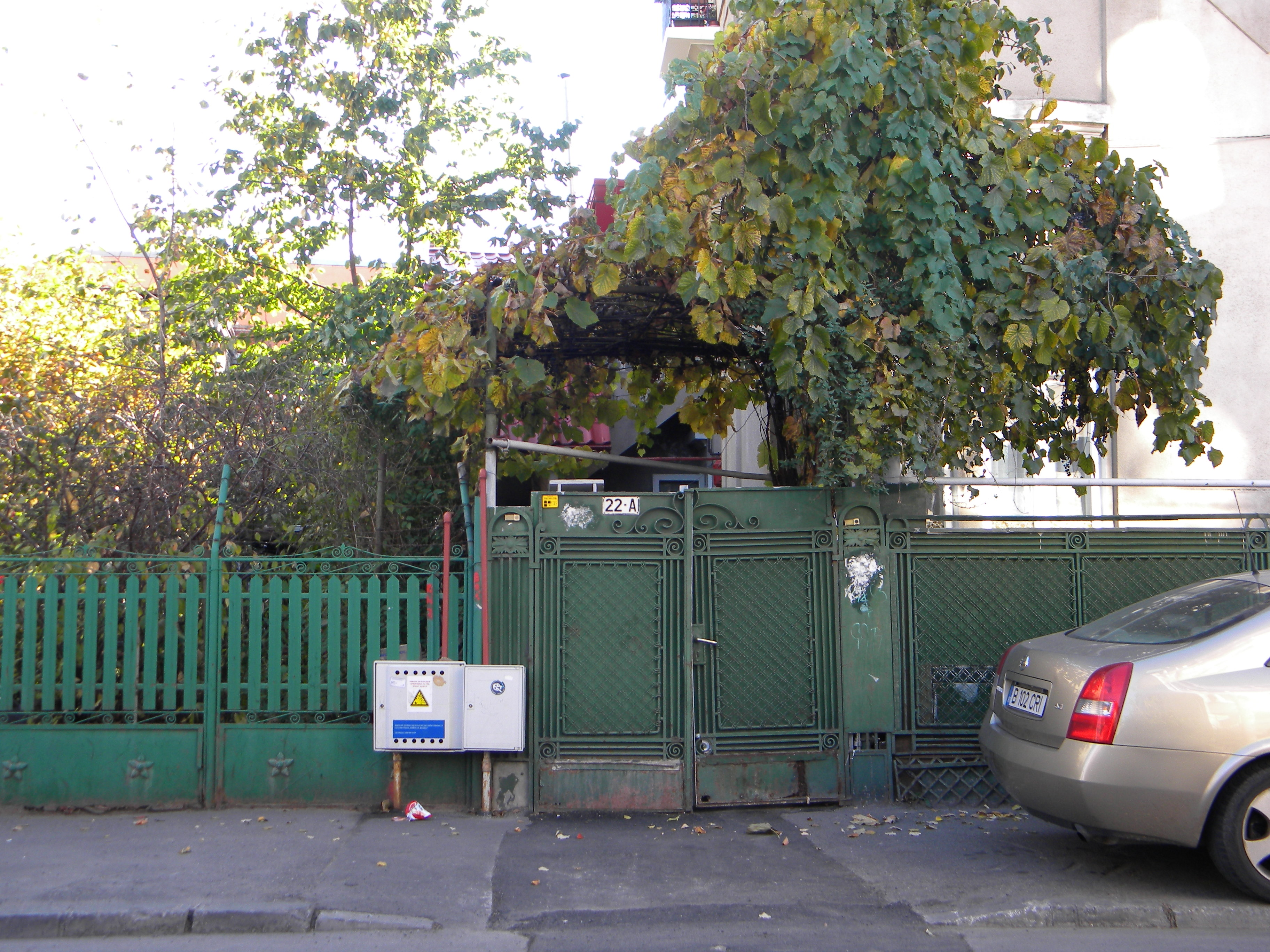 Bucuresti, Romania, Str. Matei Voievod nr. 22A, sect. 2, (B-II-m-B-19163)